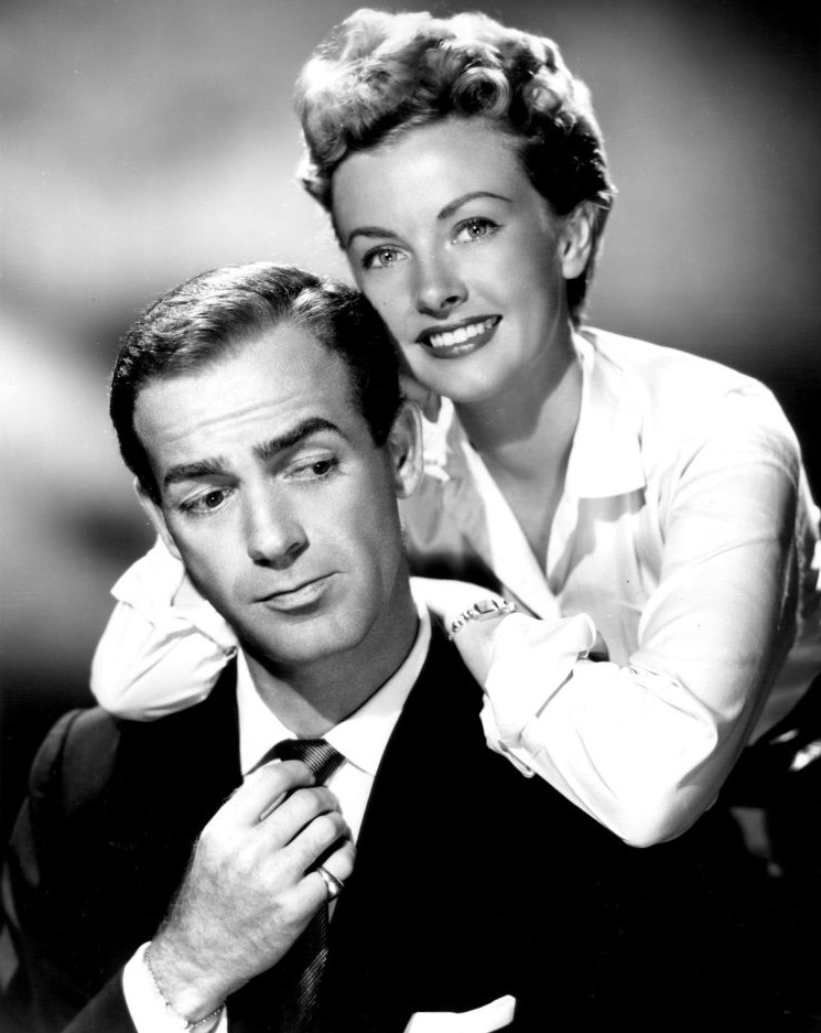 Photo of Mark Stevens as managaging editor Steve Wilson and Trudy Wroe as reporter Lorelei Kilbourne from the television program Big Town.